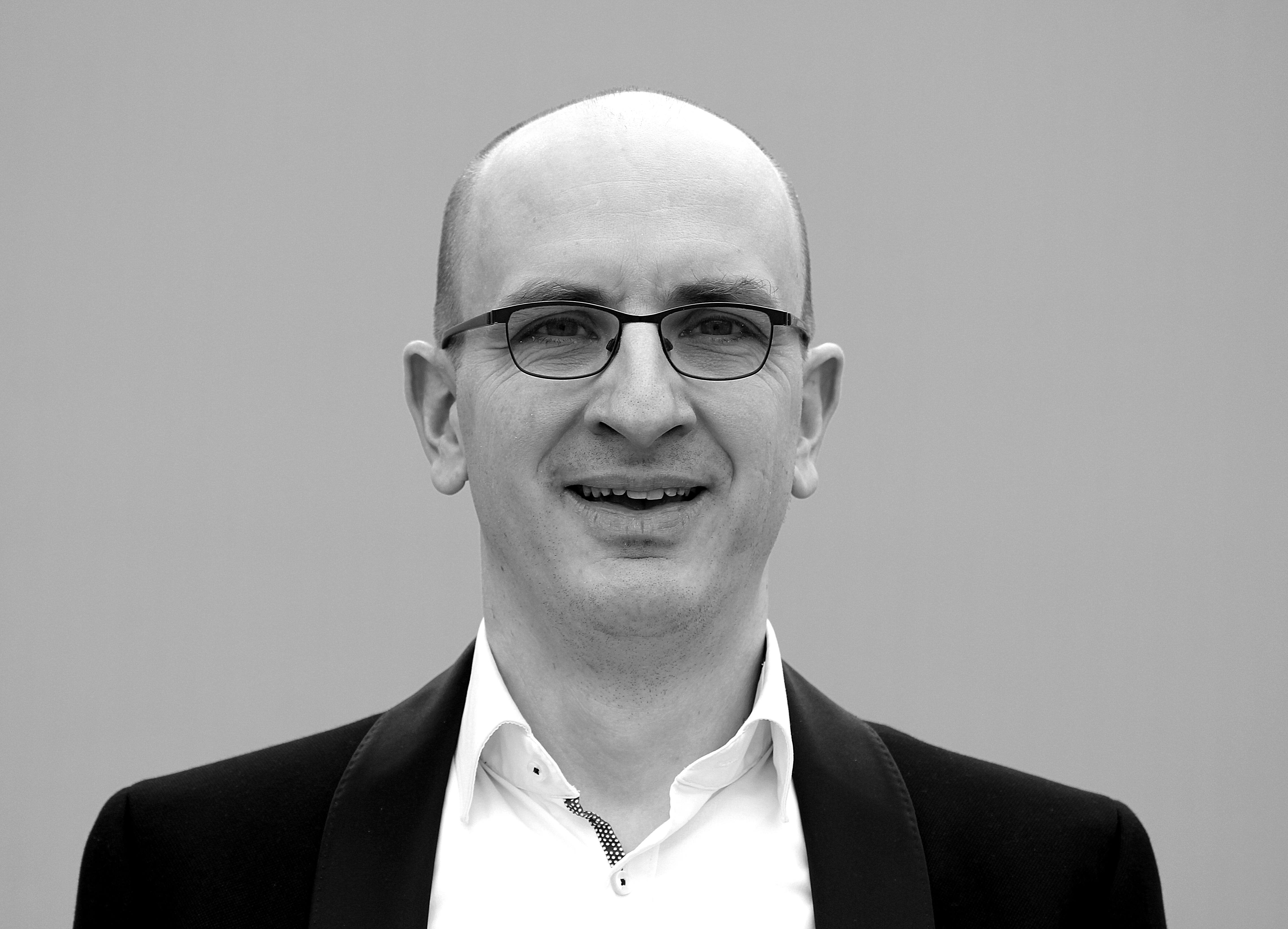 Jakob Hein Leipzig Book Fair 2018